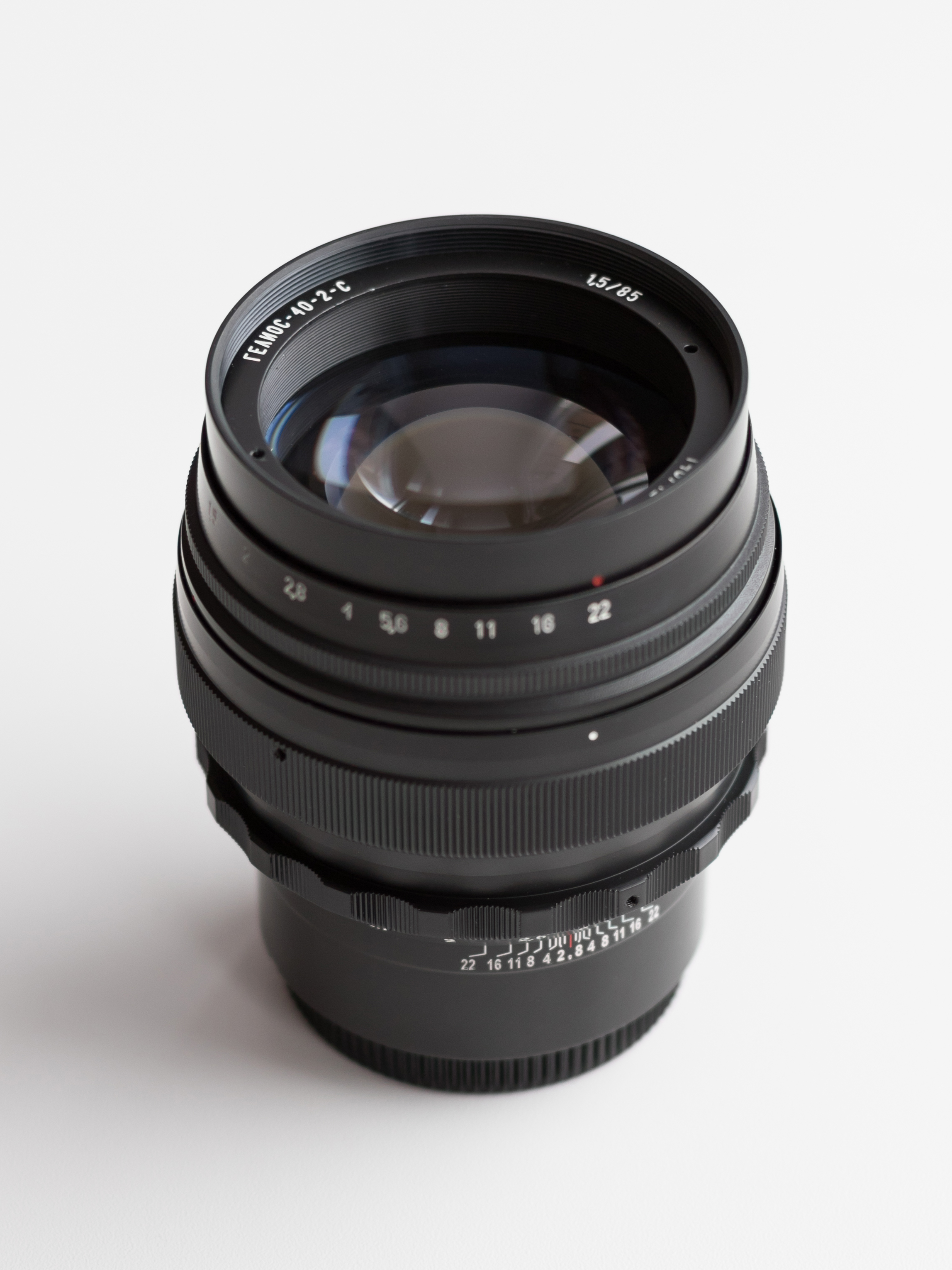 Helios 40-2-C 85mm F1.5 for Canon